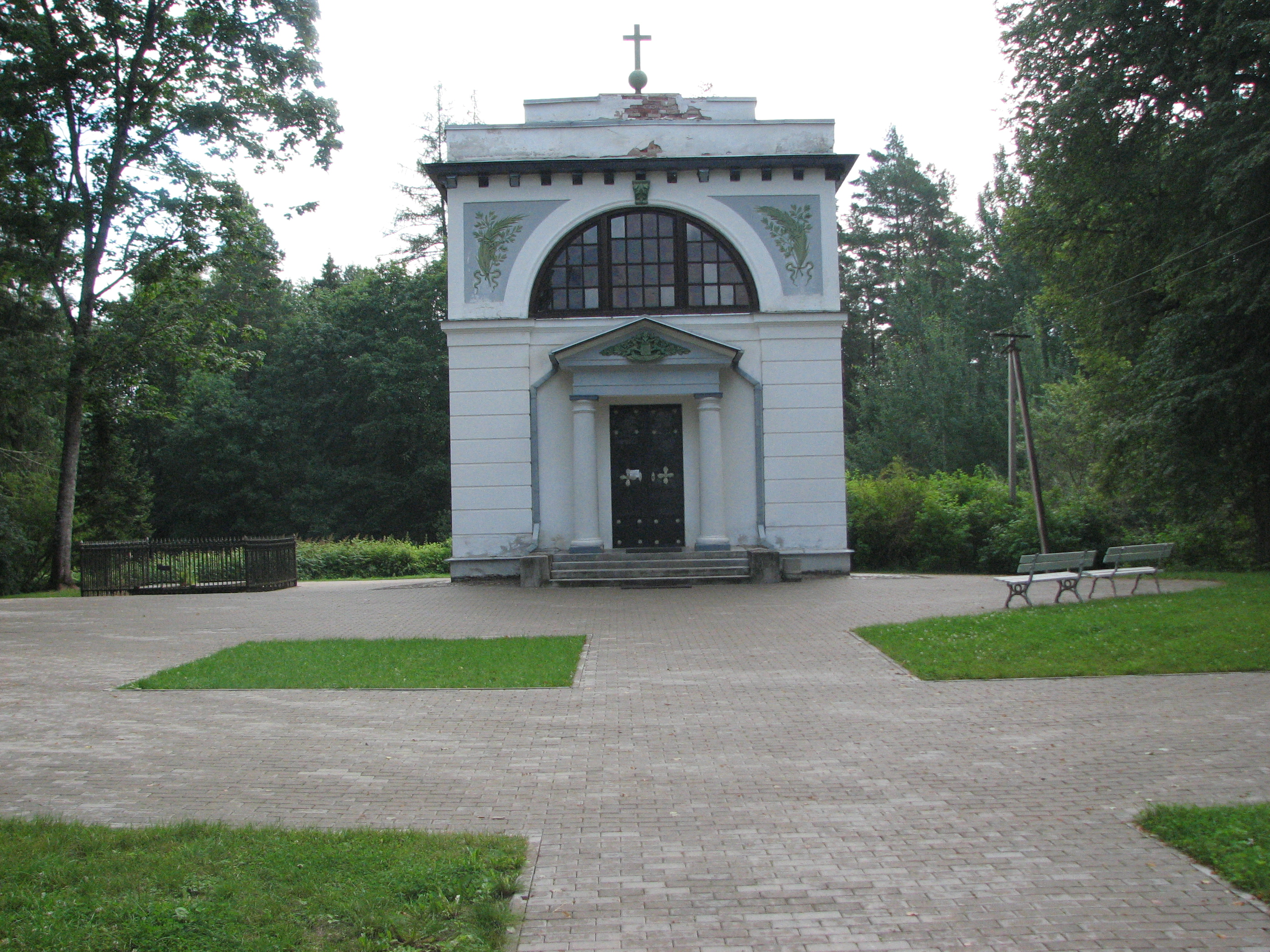 Mausoleum of Barclay de Tolly in Jõgeveste, Estonia